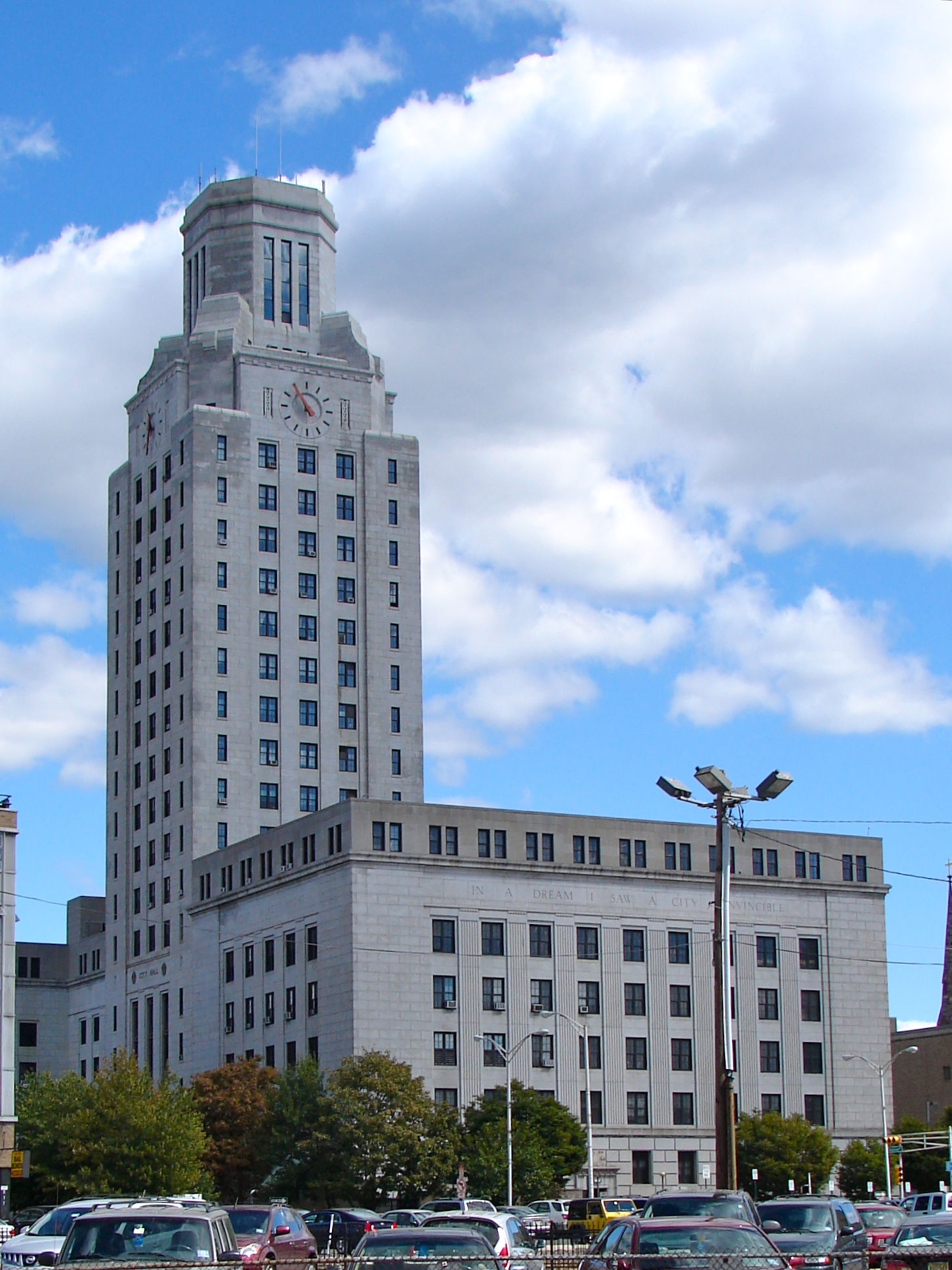 Camden, New Jersey, City Hall. 1931